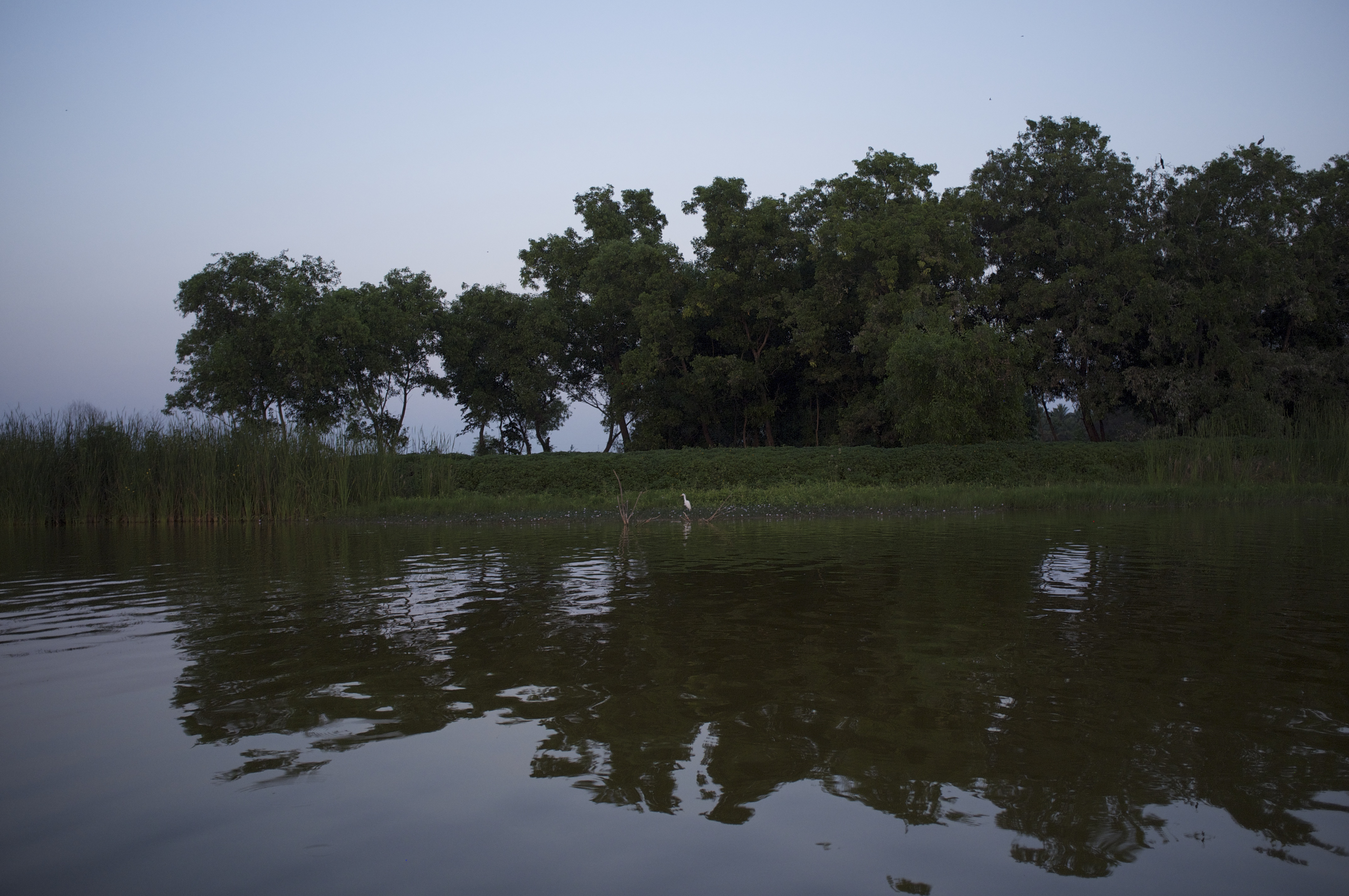 Usteri Lake, Pondicherry, India